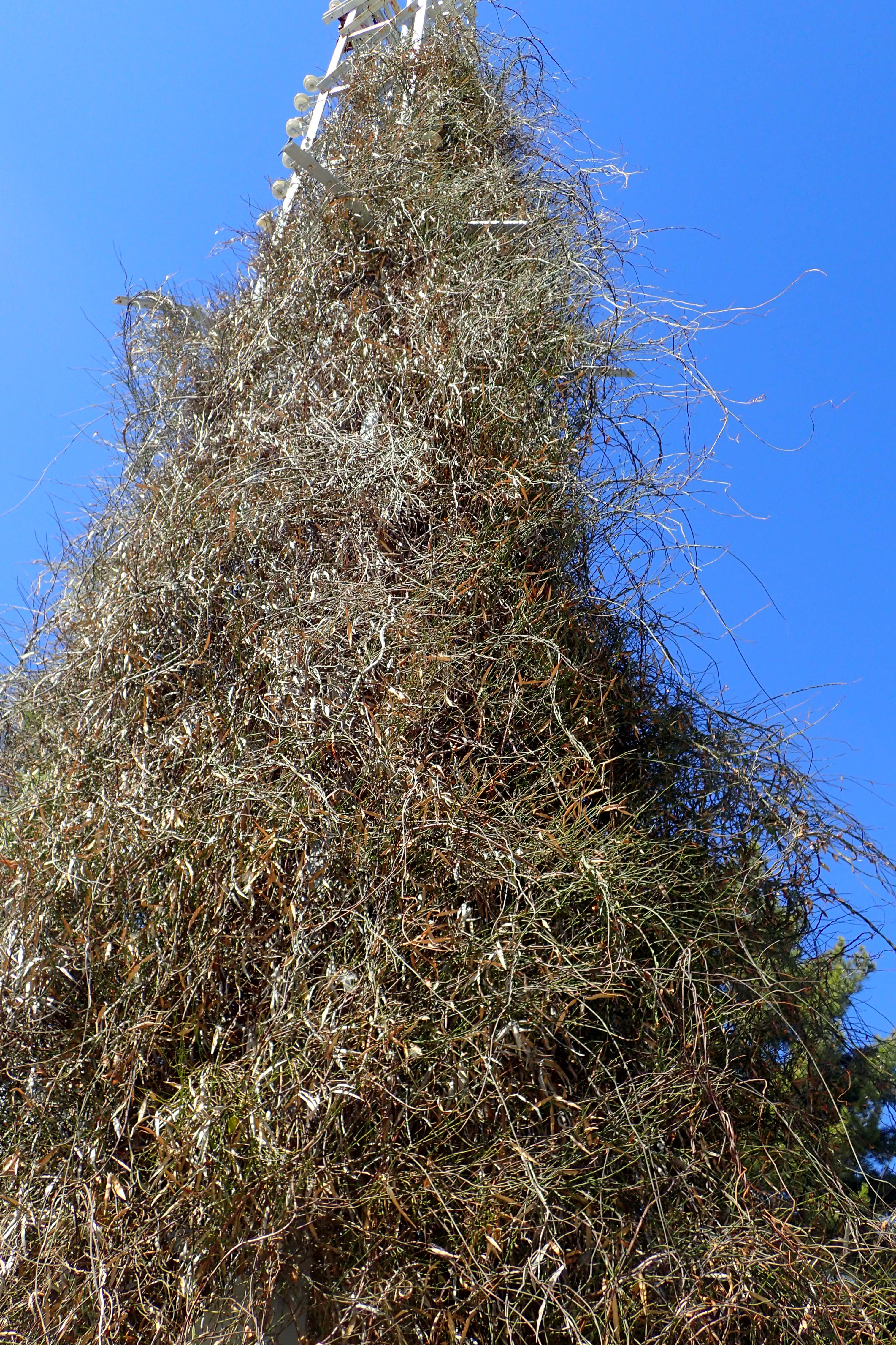 Periploca gracilis (labelled as Cyprinia gracilis) in Troodos Botanical Graden, Cyprus